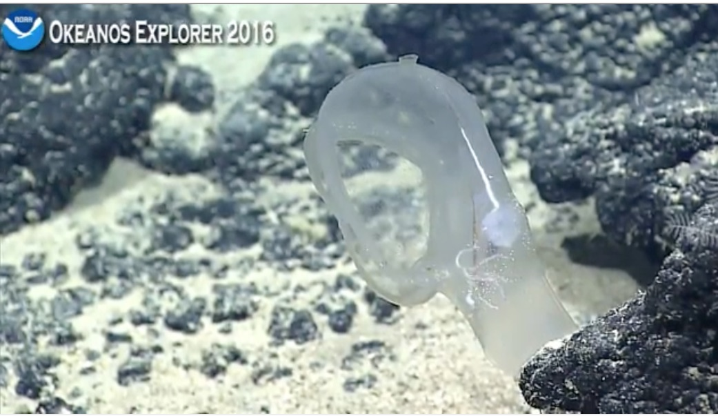 A deep-sea carnivorous tunicate of the genus Megalodicopia observed close to the Mariana islands by NOAA Okeanos Explorer mission in 2016.